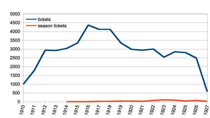 Taringamotu railway station passenger use 1910-1927 derived from annual returns of Revenue and Expenditure of each Station for the Year ended 31st March